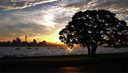 A large Pohutukawa tree sits along Devonport waterfront, New Zealand.